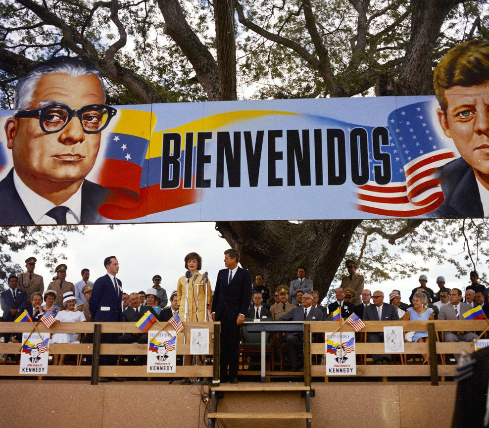 First Lady Jacqueline Kennedy addresses the audience in Spanish at La Morita Resettlement Project in La Morita, Venezuela, at a ceremony granting farmers titles to land under the Agrarian Reform Program. President John F. Kennedy stands to the right of Mrs. Kennedy; President of Venezuela Rómulo Betancourt sits to the right of President Kennedy in the front row. US State Department interpreter, Donald Barnes, stands to the left of Mrs. Kennedy. Also seated in the group at right: United States Chief of Protocol, Angier Biddle Duke; Chester B. Bowles, President Kennedy's Special Representative and Adviser on African, Asian, and Latin-American Affairs; US Ambassador to Venezuela, Teodoro Moscoso; Assistant Secretary of State for Inter-American Affairs, Robert F. Woodward; Naval Aide to President Kennedy, Captain Tazewell Shepard.